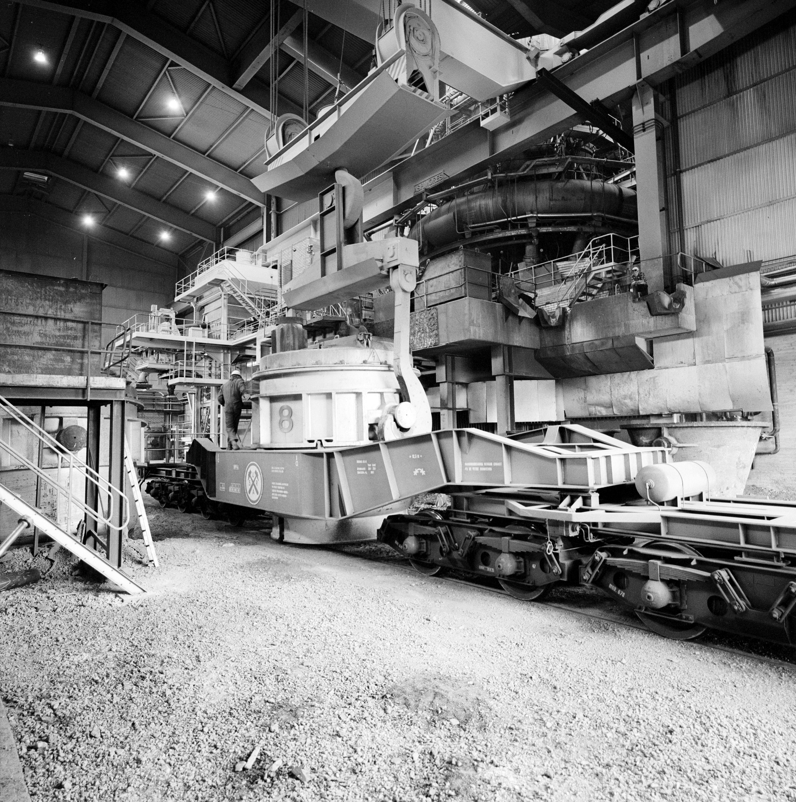 A railway car for transportation of liquid iron from the blast furnace of Spännarhyttan (1974 – 1981) near Norberg in Sweden, 50 km, to the iron works of Surahammar. One car loaded 60 ton liquid iron. There was a daily traffic of three trains with 2 – 3 cars, which in full operation transported yearly 150,000 tons.